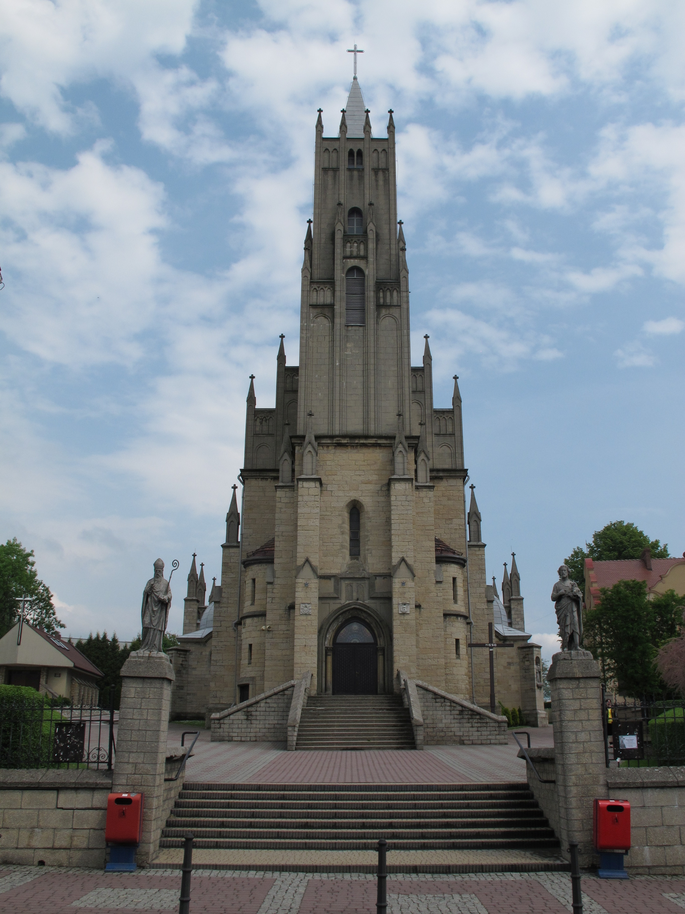 Imielin - Our Lady of the Scapular church